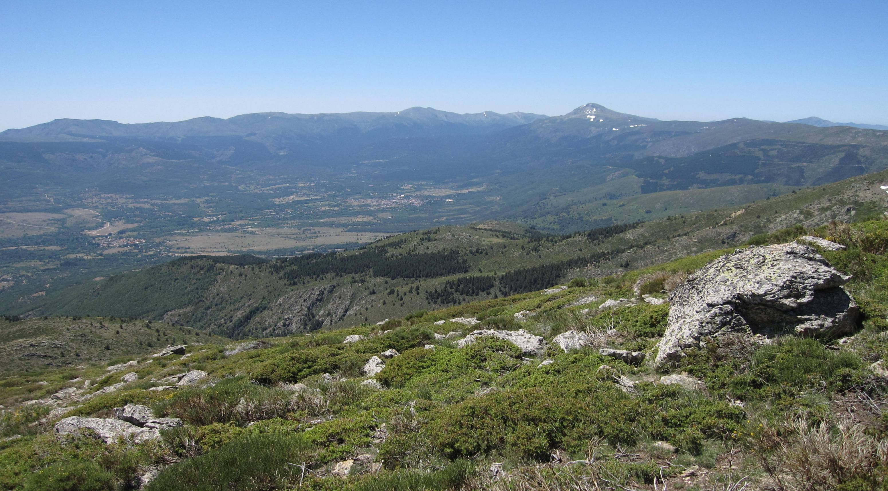 Lozoya valley seen from El Nevero peak (Guadarrama mountain range, central Spain).